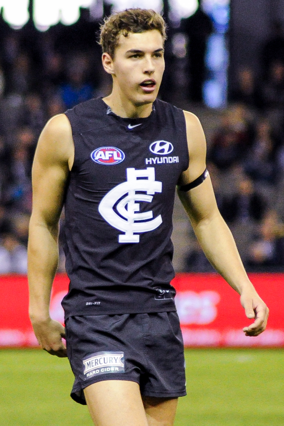 Tom Williamson during the AFL round twelve match between Carlton and Greater Western Sydney on 11 June 2017 at Etihad Stadium in Melbourne, Victoria.